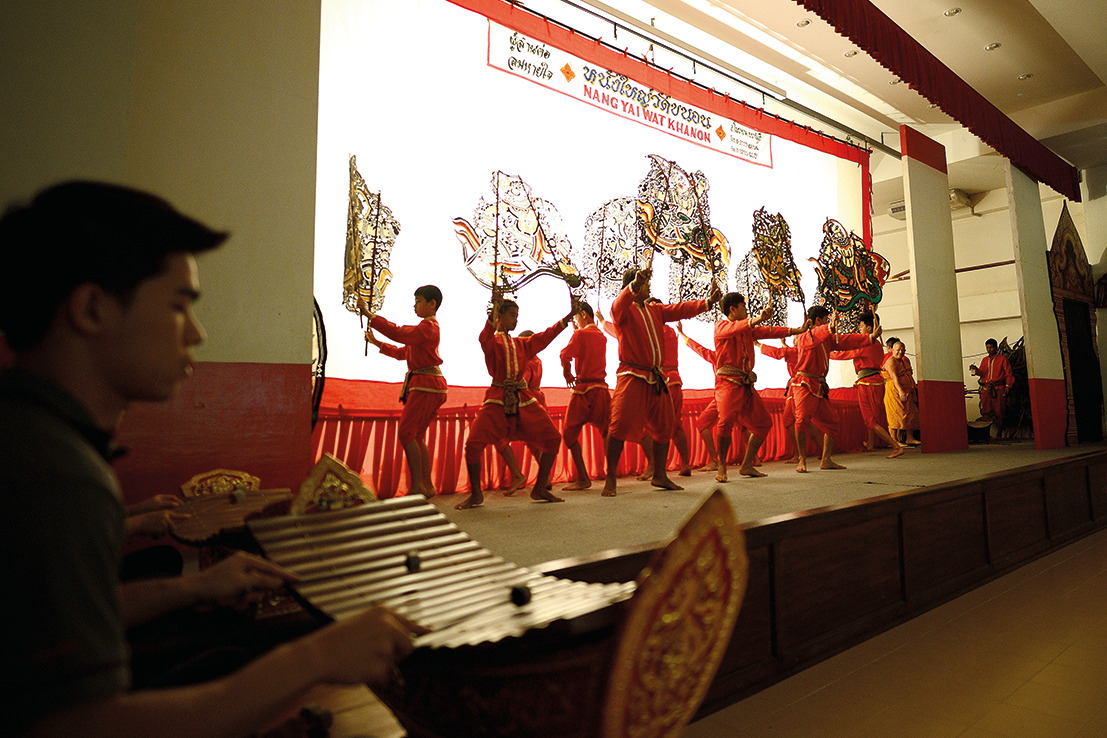 The museum is located at Wat Khanon in Photharam district. The museum features 313 large-sized puppets and traditional crafting tools which were all made by “Pra Kru Satthasunthorn”, the temple abbot and “Kru Aung”, the artisan master in 1848 – 1942. The first puppet set was the Hanuman offering ring. Under the royal initiation of H.R.H. Princess Maha Chakri Sirindhorn who values traditional Thai performance, including the shadow puppet which is regarded as a most sophisticated form of entertainment. She has the initiative to help preserve a measure of Nang Yai and gave some fund to remake it instead of the old ones by “Suchart Subsin” the artisan from Nakornratchasima. UNESCO recognized the temple as one of the world’s six communities that best promoted the Safeguarding of Intangible Cultural Heritage (ICH).